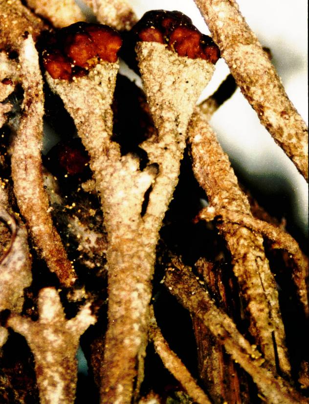 Cladonia rei Schaerer, 1823 [Synonyms: Cladonia subulata (L.) Weber ex F.H. Wigg., 1780 (see Spier & Aptroot 2007); Cladonia nemoxyna (Ach.) Arnold, 1888] (photograph of a herbarium specimen taken through a dissecting microscope (x12) showing terminal apothecia) Growing on soil of an old apple orchard at the Maryland Ornithological Society Sanctuary at Carey Run, 3.5 miles WNW of Frostburg, Garrett County, Maryland, USA; collected and identified by B. Ball and A. Norden (Cladonia nemoxyna, No. L-74, 1 Jan 1973), annotated by Allen C. Skorepa; specimen is now in the Lichen Herbarium of the New York Botanical Garden.